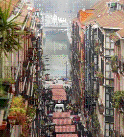 Dos de Mayo street, Bilbao